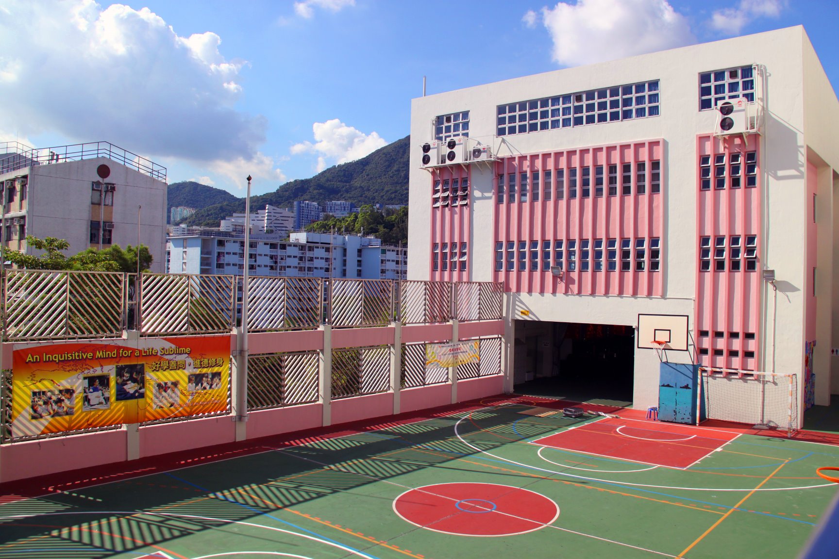 Our Lady of the Rosary College